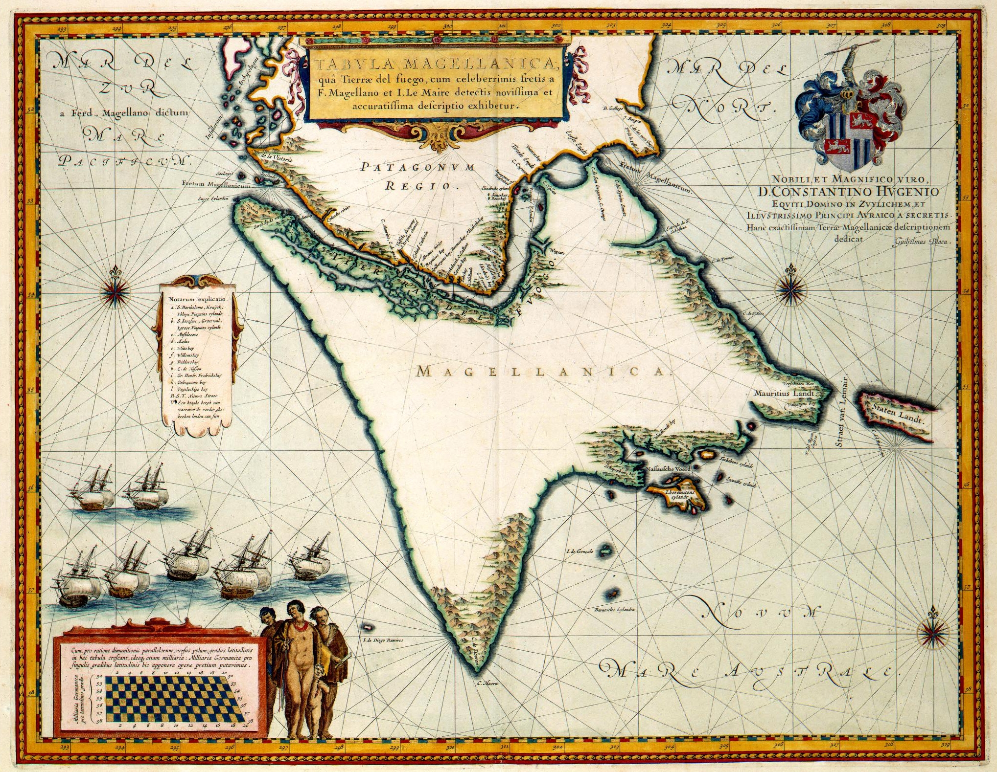 "Tabula Magellanica" (1635). Strait of Magellan, South America.